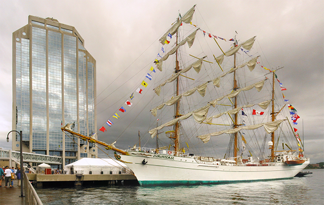 Mexican Tall Ship Cuauhtémoc - ARM CUAUHTÉMOC BE-01 at the Purdy's Wharf Pier, Halifax, Nova Scotia, 2004.